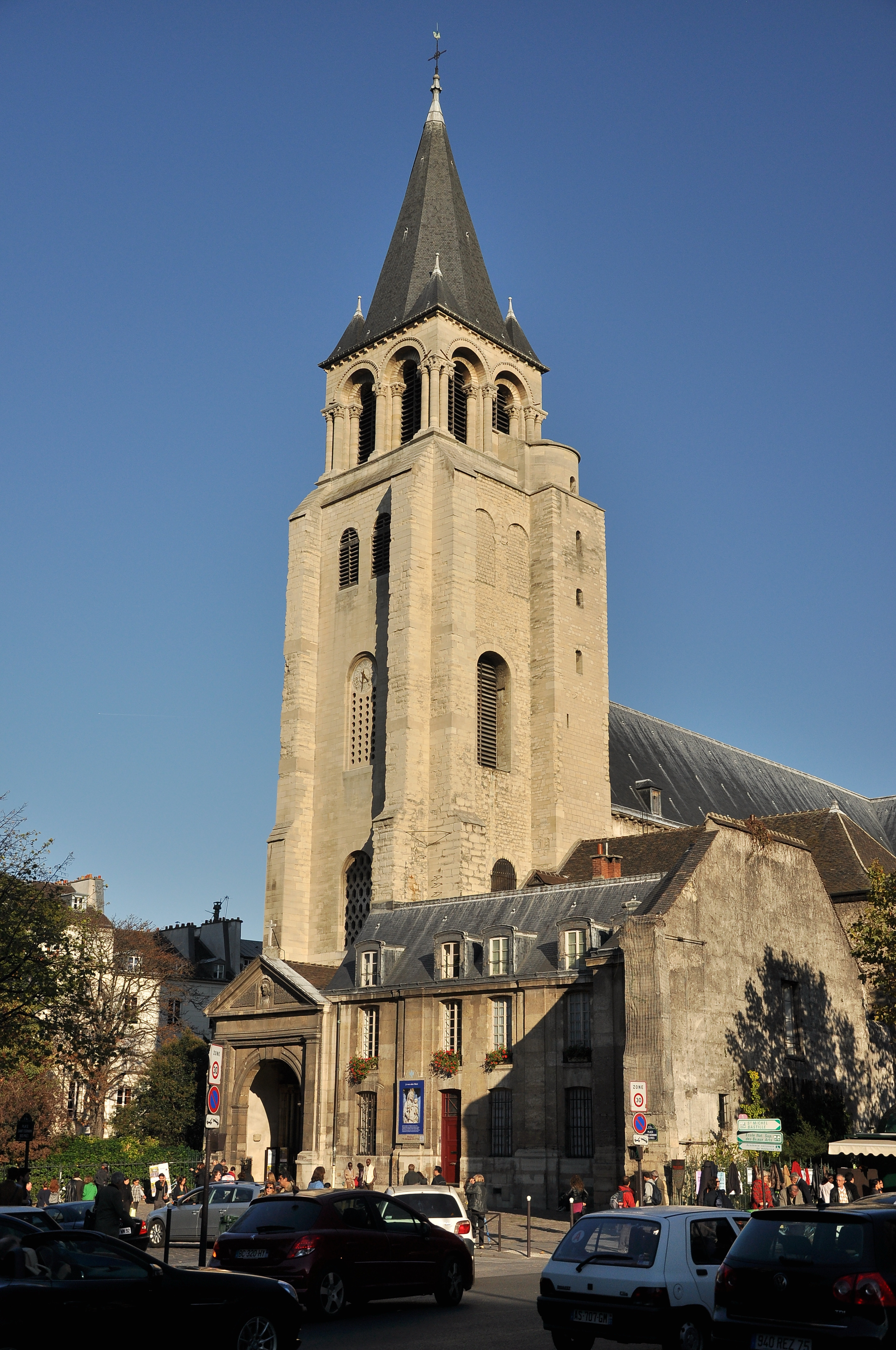 Abbey of Saint-Germain-des-Prés in the 6th arrondissement of Paris, France.